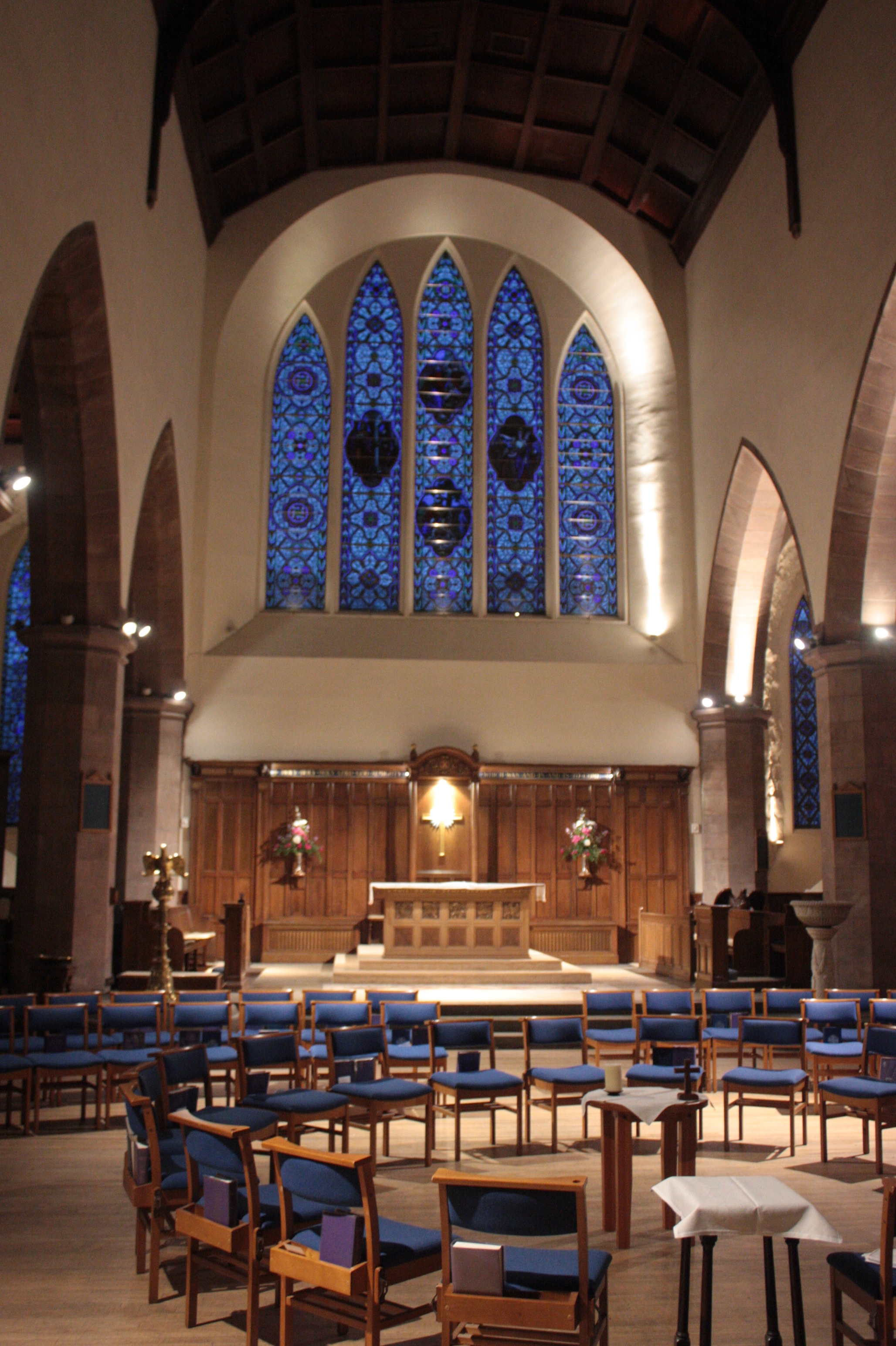 current interior Greyfriars Kirk